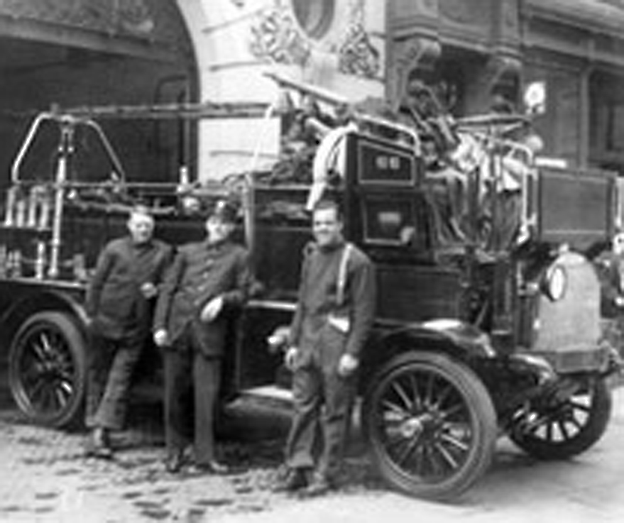 Early tractor, Wesley Williams at front by Engine 55 quarters